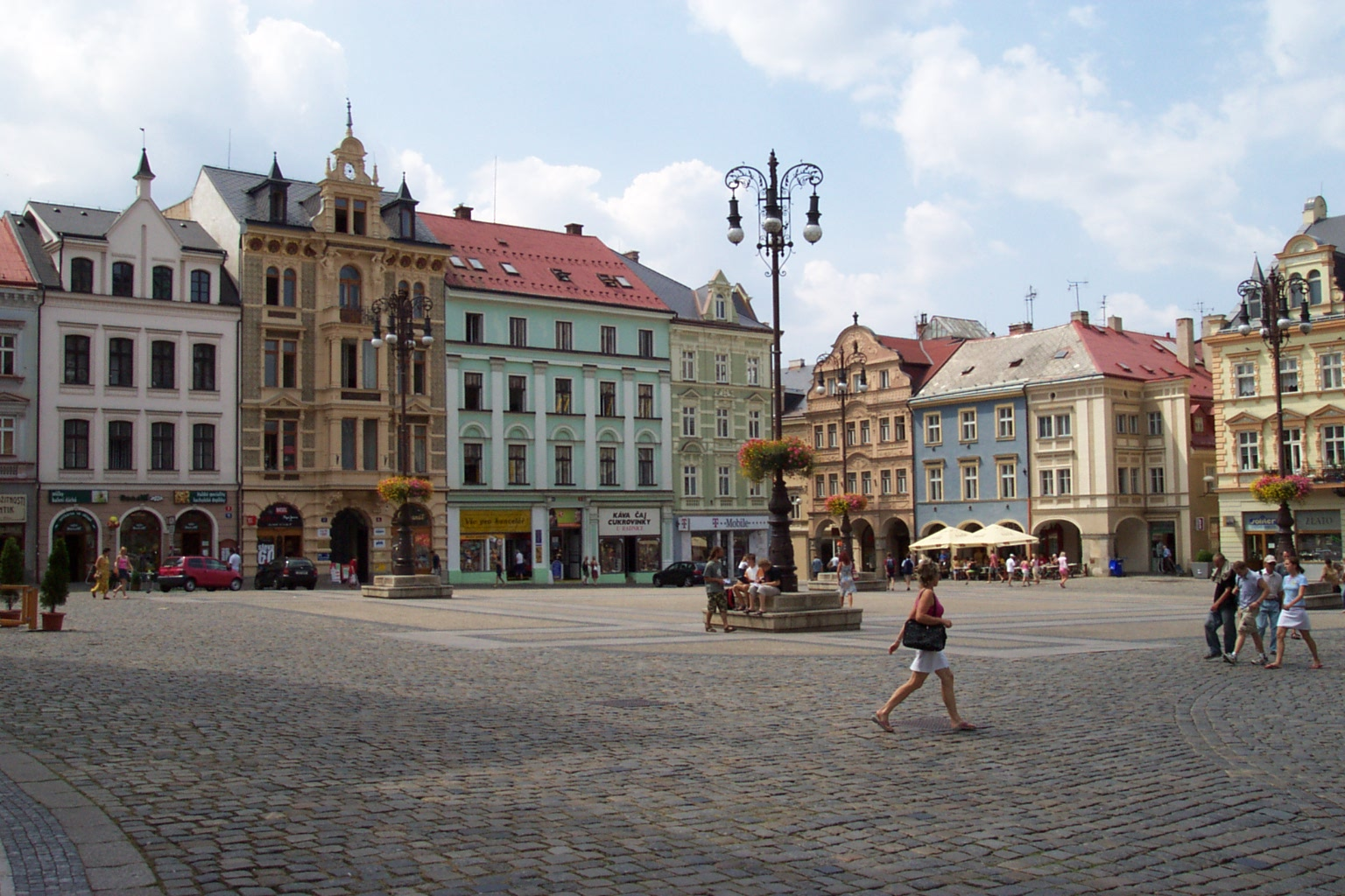 Benešovo náměstí square in Liberec, Czech Republic